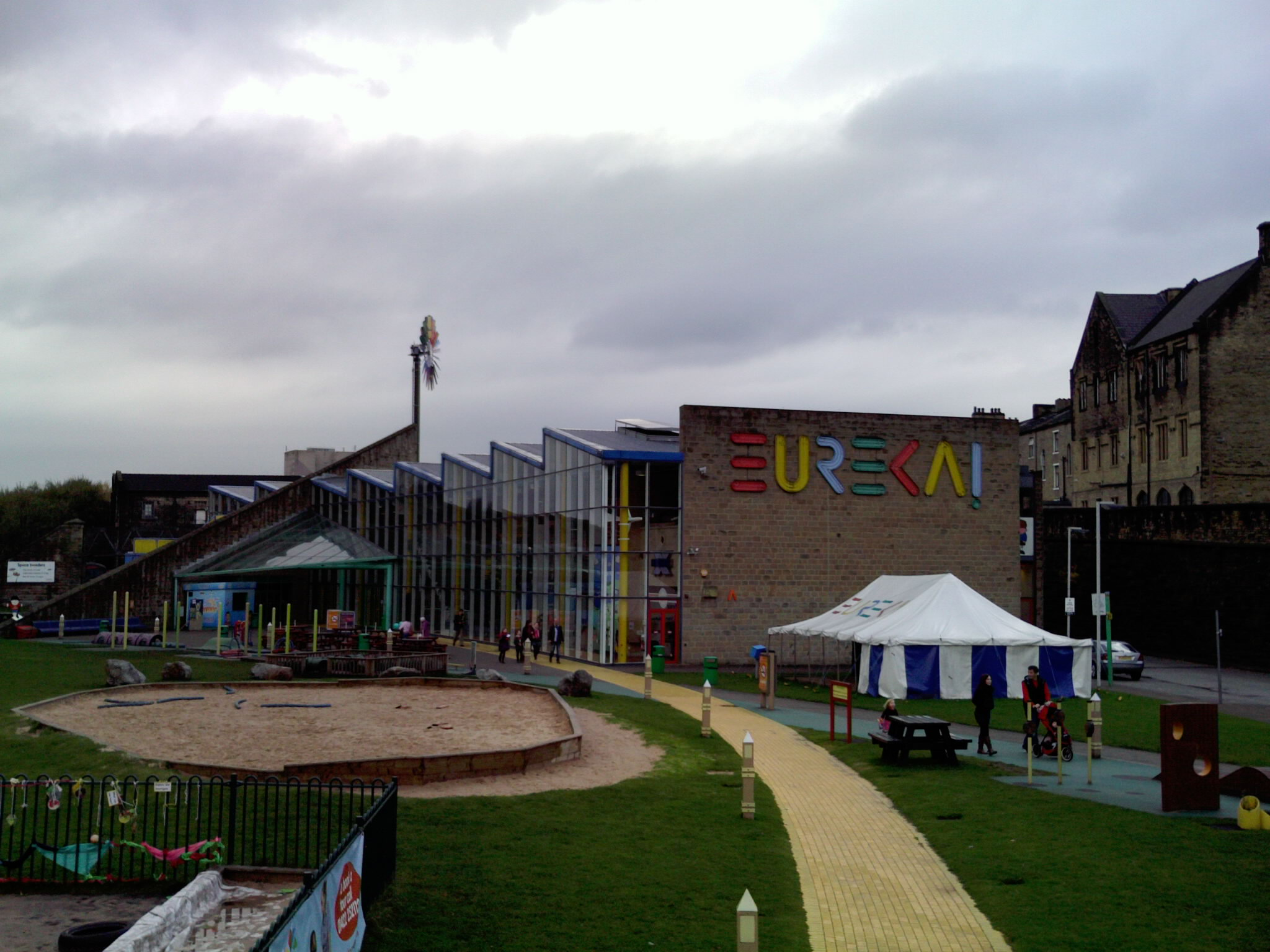 The Eureka museum in Halifax, West Yorkshire. Taken on a Sunday in November 2009.